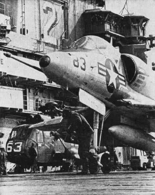 A Douglas A-4C Skyhawk (BuNo 147829) from detachment N of Marine headquarters and maintenance squadron 15 (H&MS-15) Angels armed with an AIM-9B Sidewinder air-to-air missile, in 1965/66. The H&MS-15 Det. N was assigned to Anti-Submarine Carrier Air Group 57 (CVSG-57) for a deployment to Vietnam from 12 August 1965 to 23 March 1966 aboard the U.S. anti-submarine aircraft carrier USS Hornet (CVS-12). H&MS-15 Det. N flew attack missions and provided fighter cover for the Hornet. The Det. N A-4Cs kept their tail code "YV" for this deployment, not adopting CVSG-57s tail code "NV". A Sikorsky SH-3A Sea King of helicopter anti-submarine squadron HS-2 Golden Falcons is parked next to Hornet´s island.